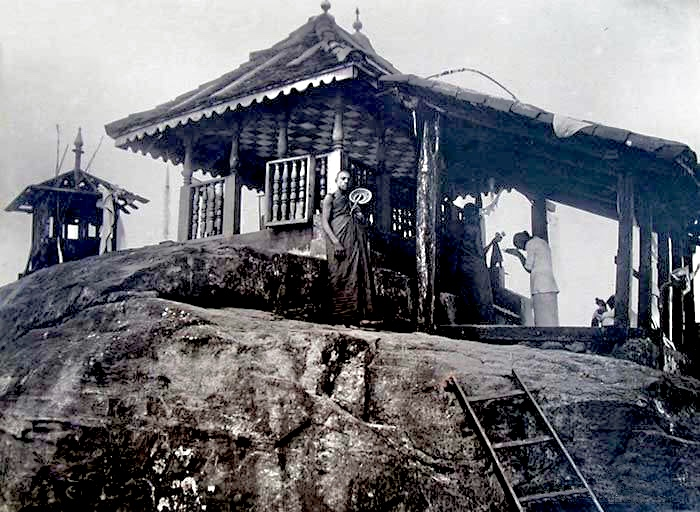 Sripada in 1890 Two Buddhist monks and two pilgrims are visible in the photograph.